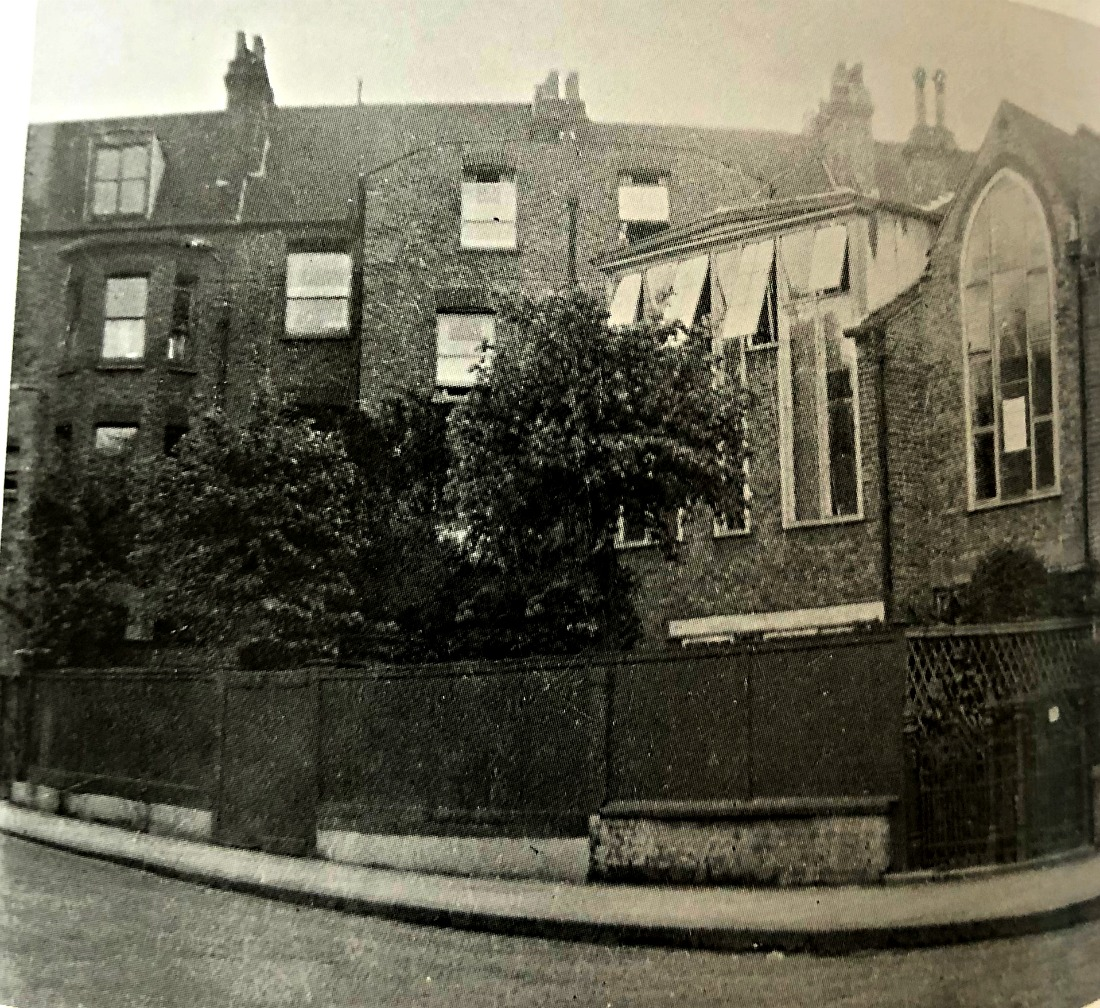 Photograph of Christopher Whall's studio workshop in Hammersmith, London